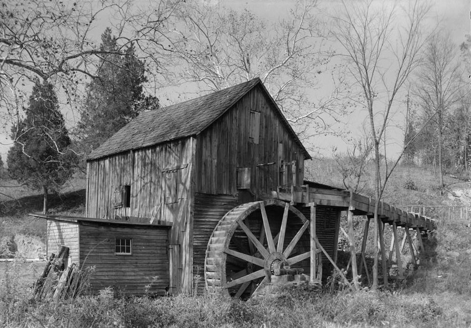 Piney Branch Water Mill, 1212 Pope's Head Road, Fairfax vicinity, Fairfax, Virginia. Historic American Buildings Survey, The Library of Congress, Washington, D.C.